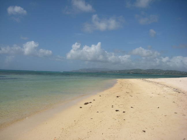 Tobago beach